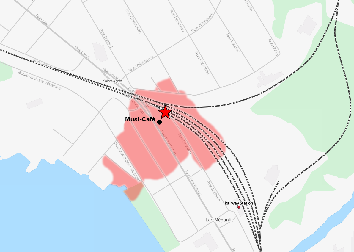 Overlays a red area on an openstreetmap section of Lac-Mégantic, based on the star and the national post.